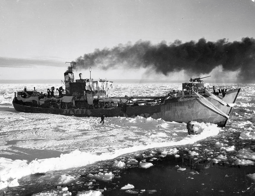 German trawler Externsteine shortly after capture, north-eastern Greenland, October 15-16 1944